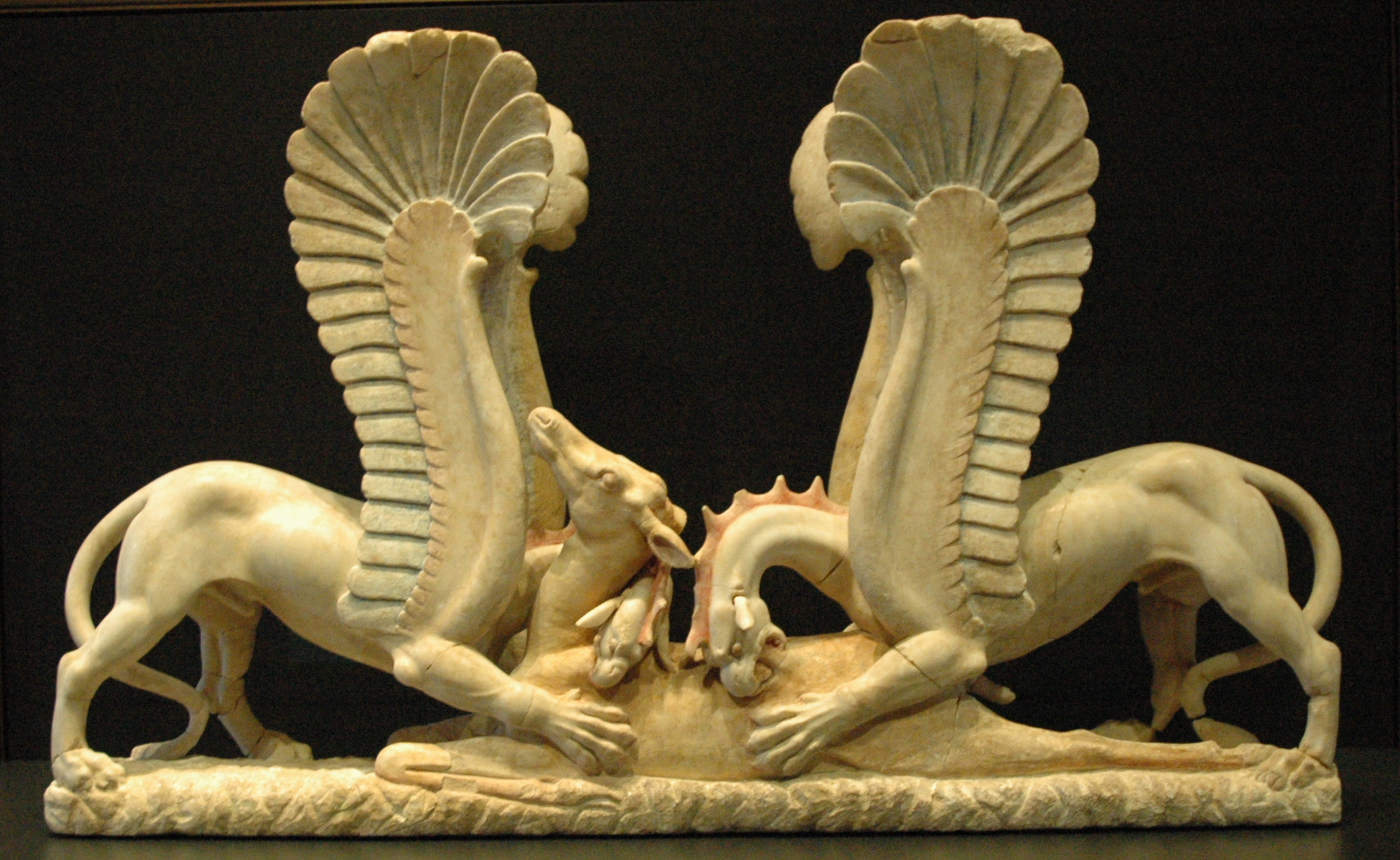 Table support in shape of griffins attacking a doe. Marble and pigment, South Italy, 325–300 BC.